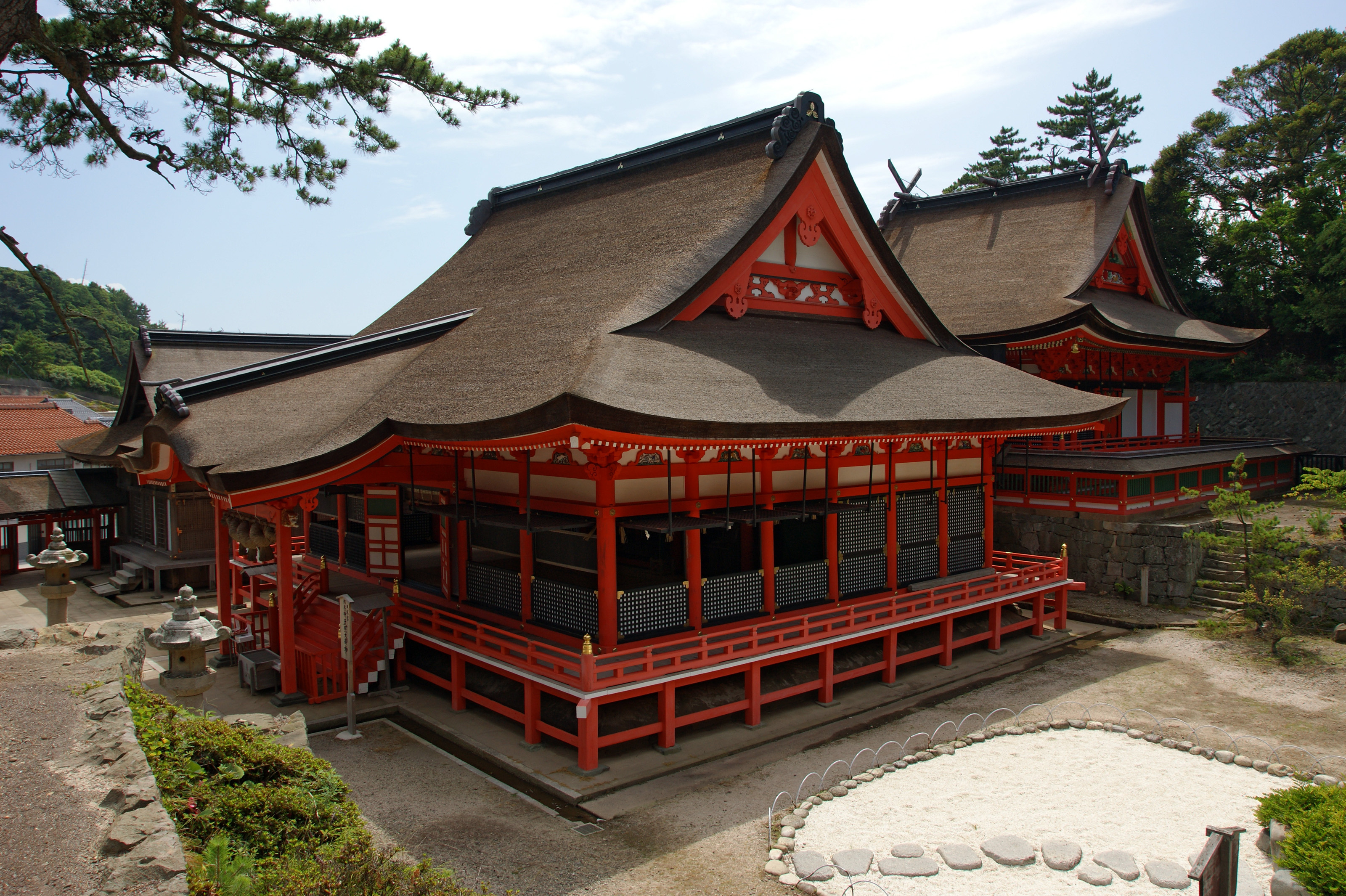 Hinomisaki-jinja in Izumo, Shimane prefecture, Japan